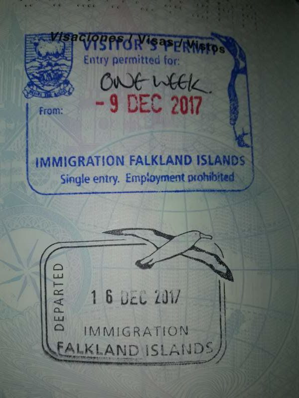 This is a departed stamp for the Falkland Islands.